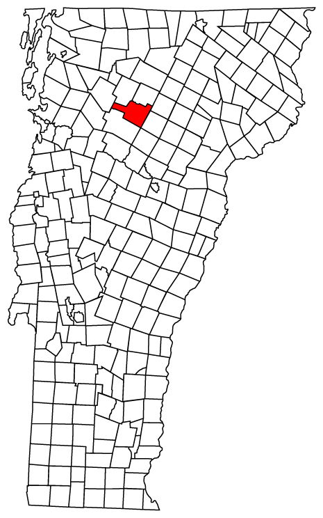 Description: Map of Vermont towns with Morristown highlighted Source: Map created by Jared C. Benedict on 26 March 2004. Copyright: © Jared C. Benedict.